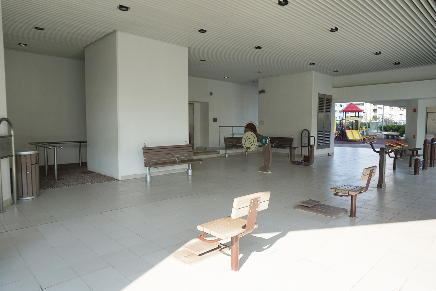 Mei Tung Estate in Kowloon City, Hong Kong.